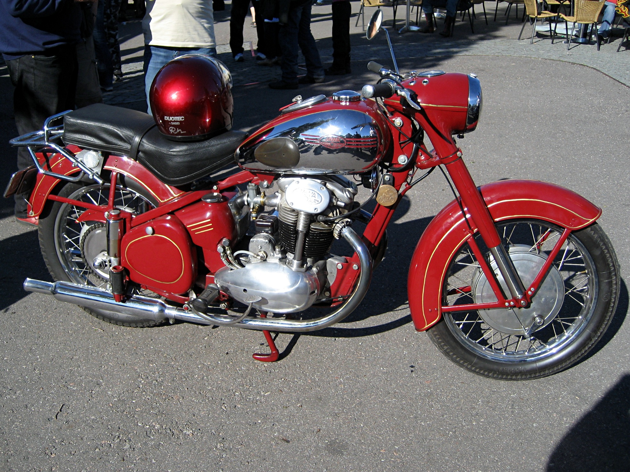 Jawa 500 OHC motorcycle (Typ 15), in production between 1952-1958. Typ 15 was, unlike most Jawas of the era, four stroke. Note the bevel shaft that operates the camshaft. Very few examples exist, as the bike proved unreliable and it was expensive to buy. The two strokes that Jawa is famous for dominated ever after.